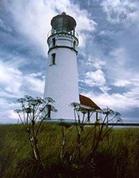 The Cape Blanco Light, Oregon.